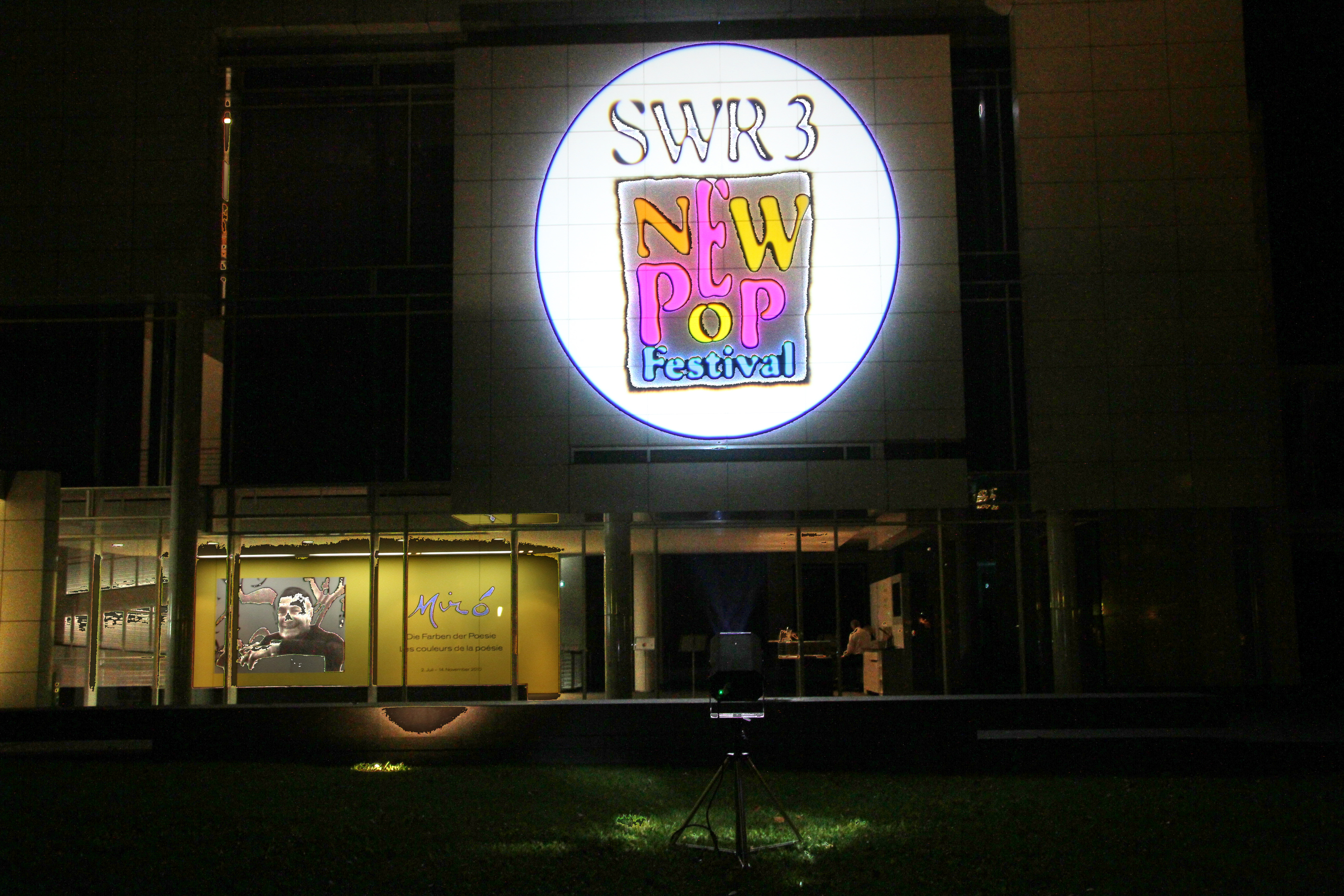 Museum Frieder Burda, Baden-Baden, Germany, during SWR3 New Pop Festival.